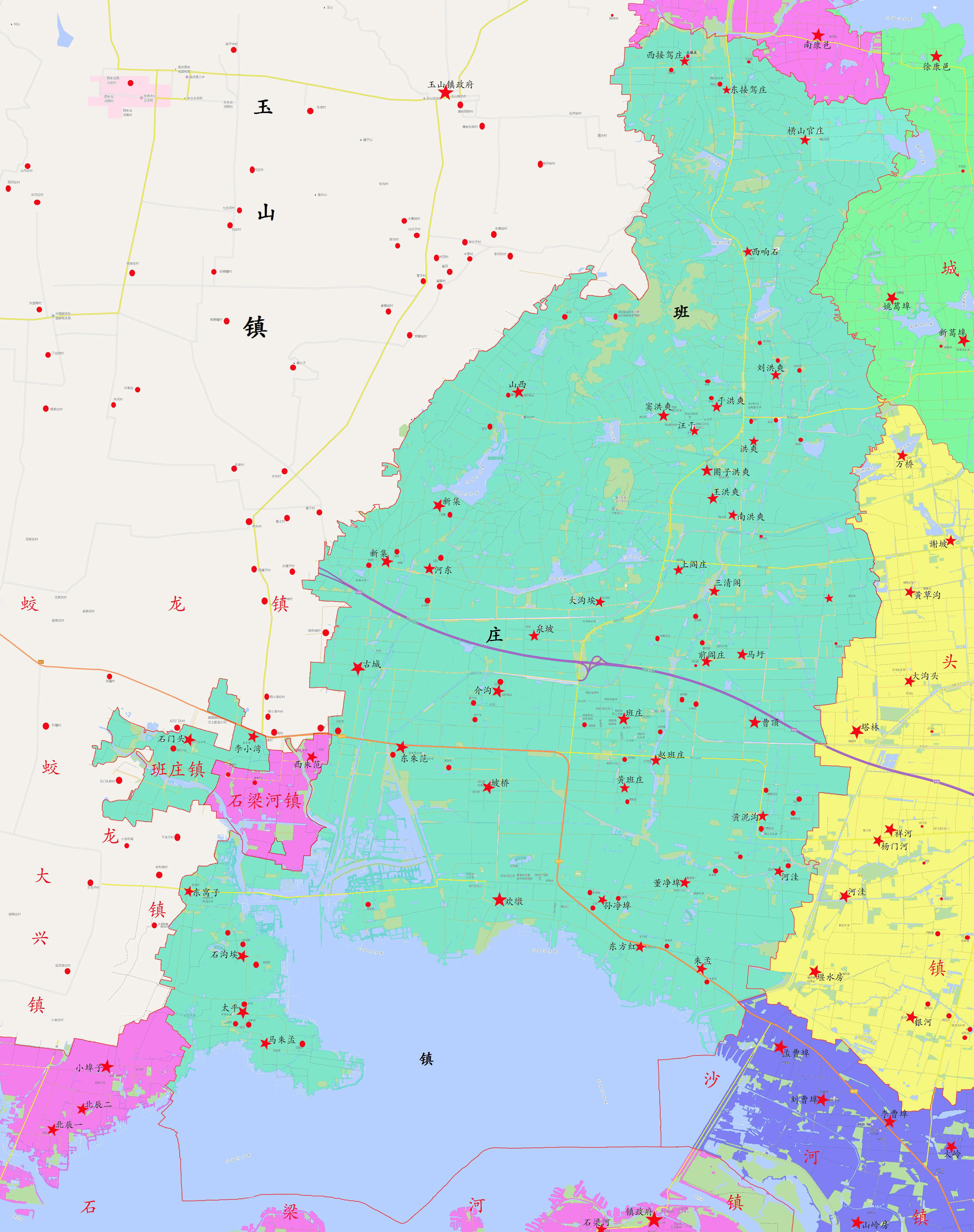 Map of Banzhuang